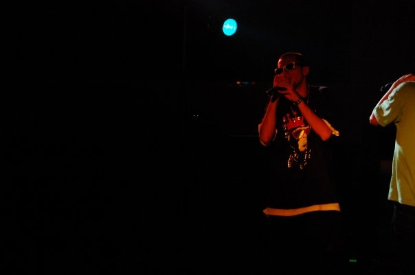 Nel·lo Caramel·lo on stage in 2009